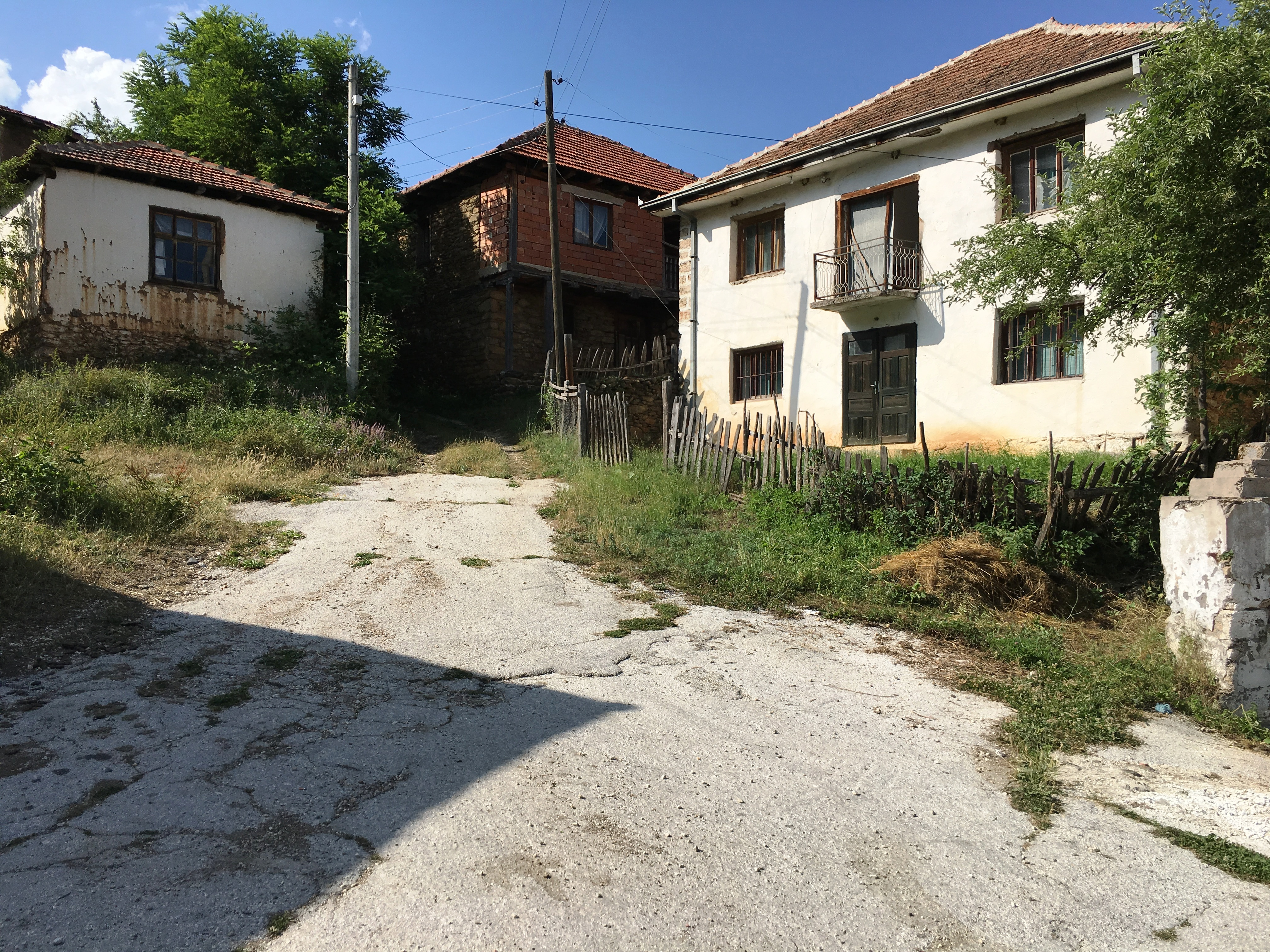 The mid-village of Rasteš